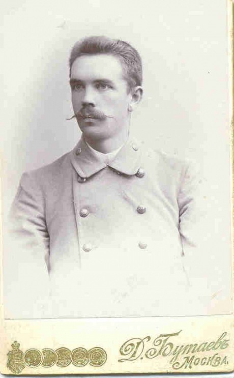 Andrejs Priedkalnis, doctor, politician, a member of the Third Russian State Duma, 1907-1912 as a student of Moscow University